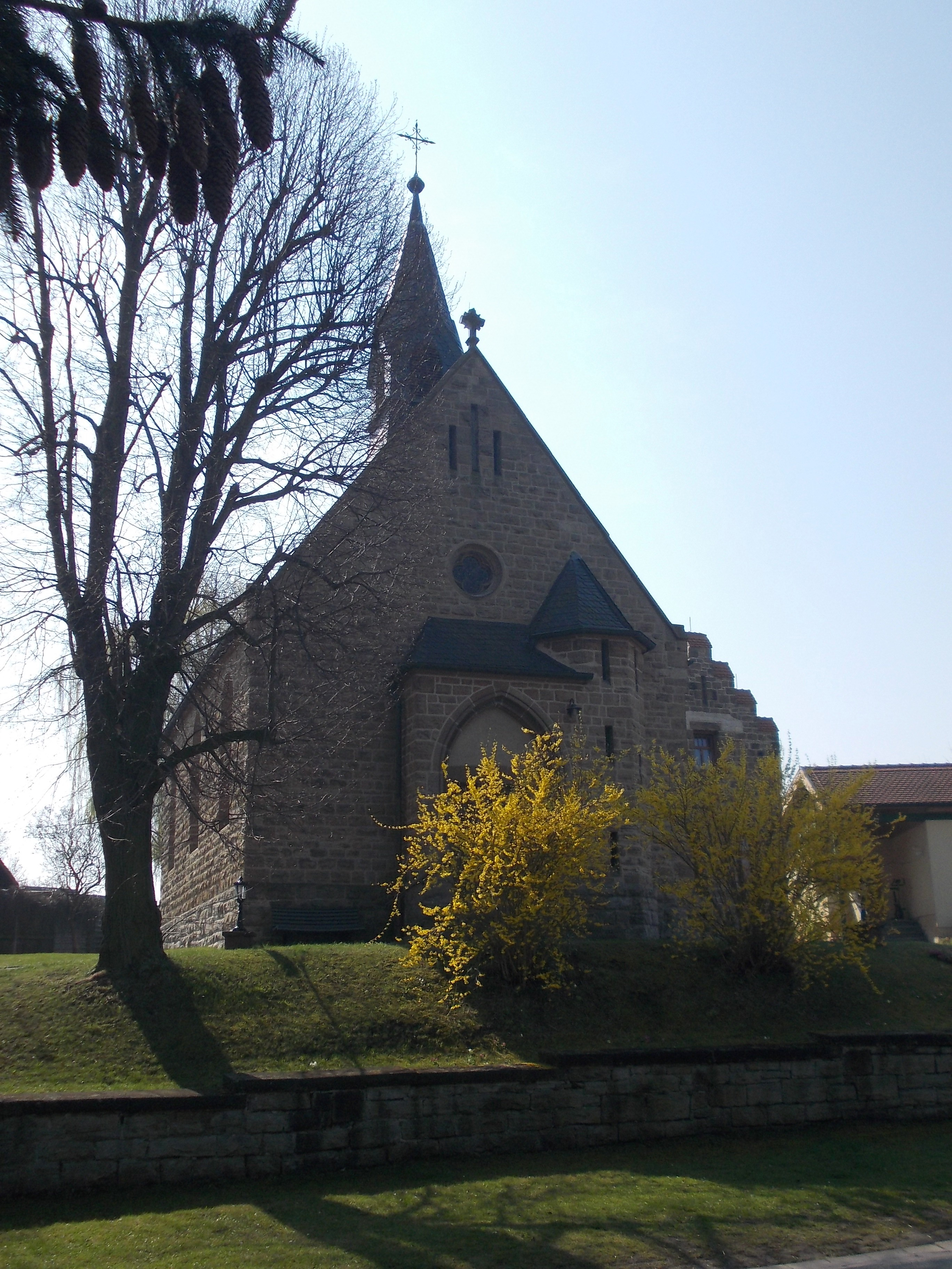 Roman Catholic Saint Mary's Church in Droyßig (district: Burgenlandkreis, Saxony-Anhalt)